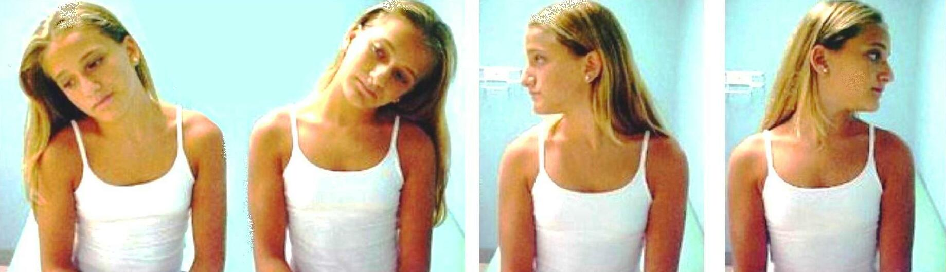 Neck exercises